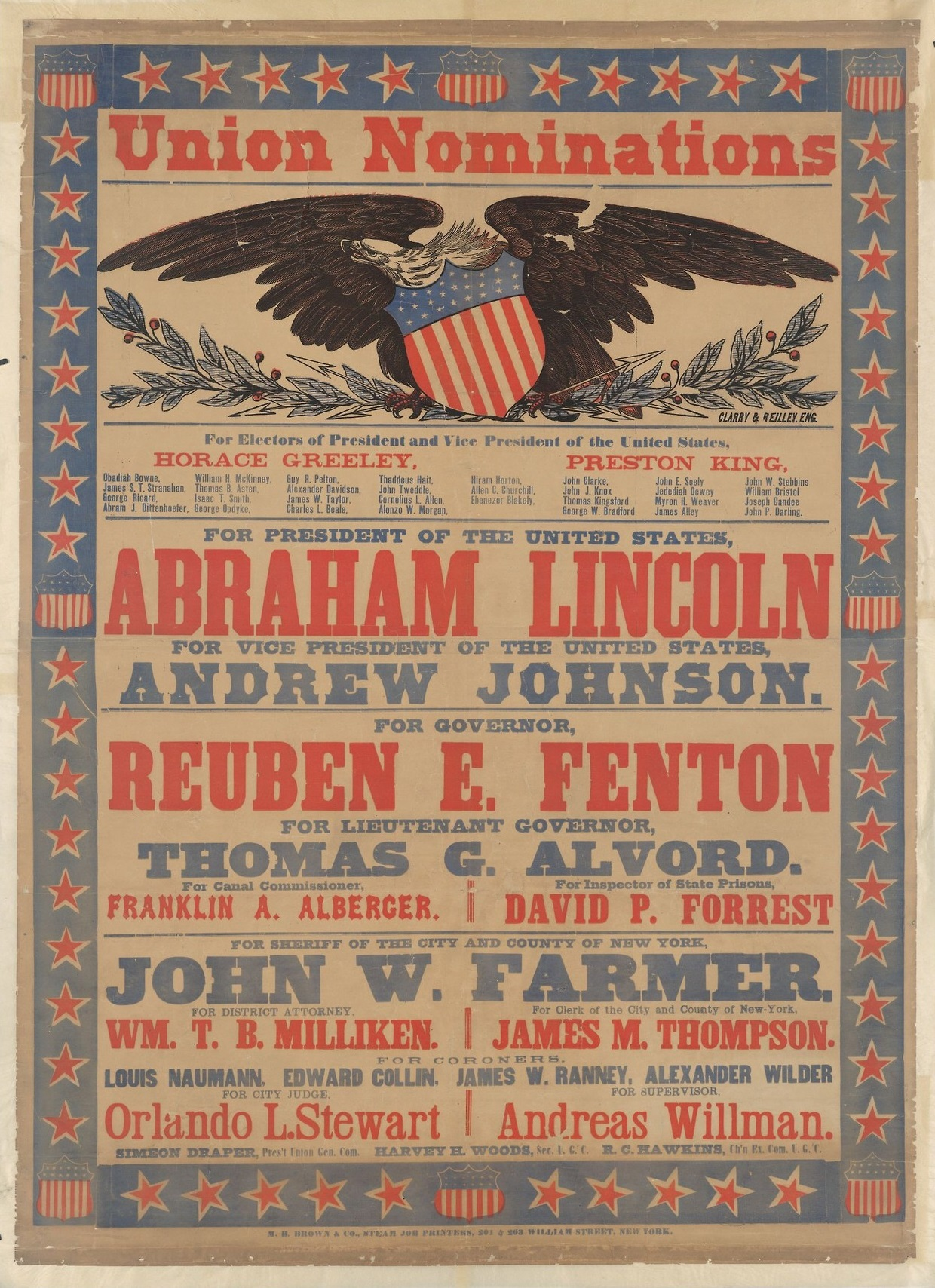 Campaign poster; caption followed by an eagle with its wings outspread and a list of candidates, starting with Abraham Lincoln for president, and concluding with candidates for judge and supervisor in New York. 1864. *AB85.L6384.Z864u, Houghton Library, Harvard University